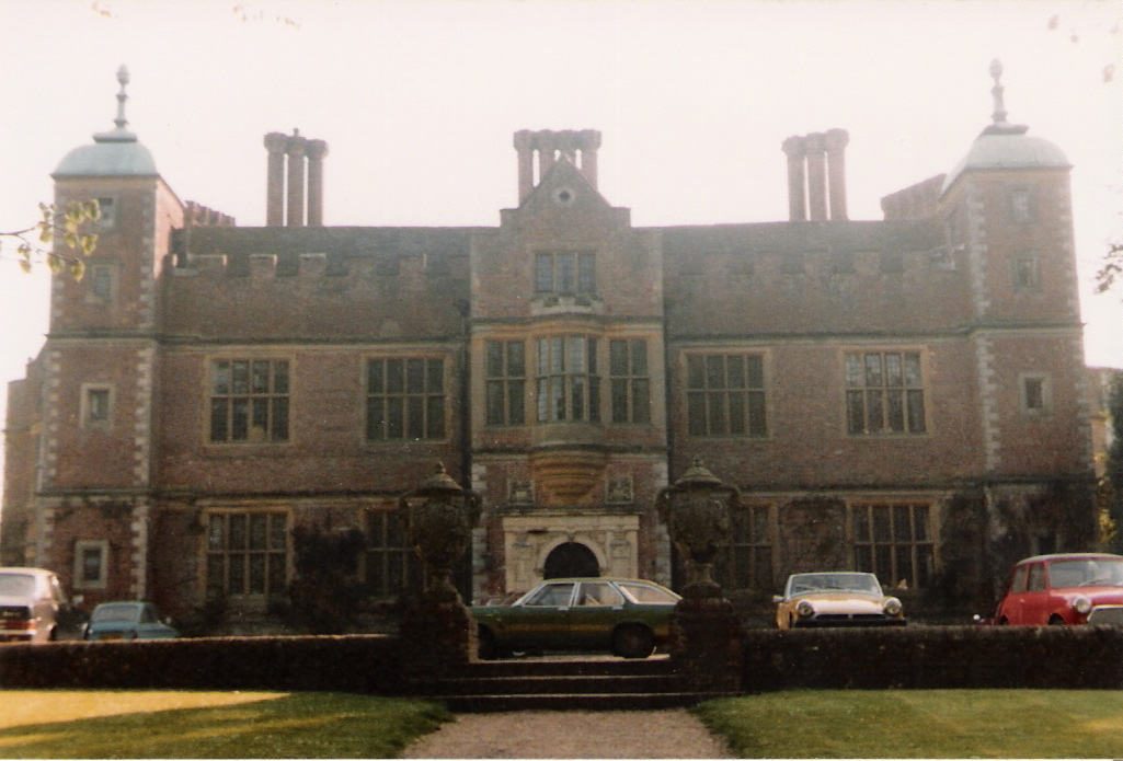 Chilham Castle